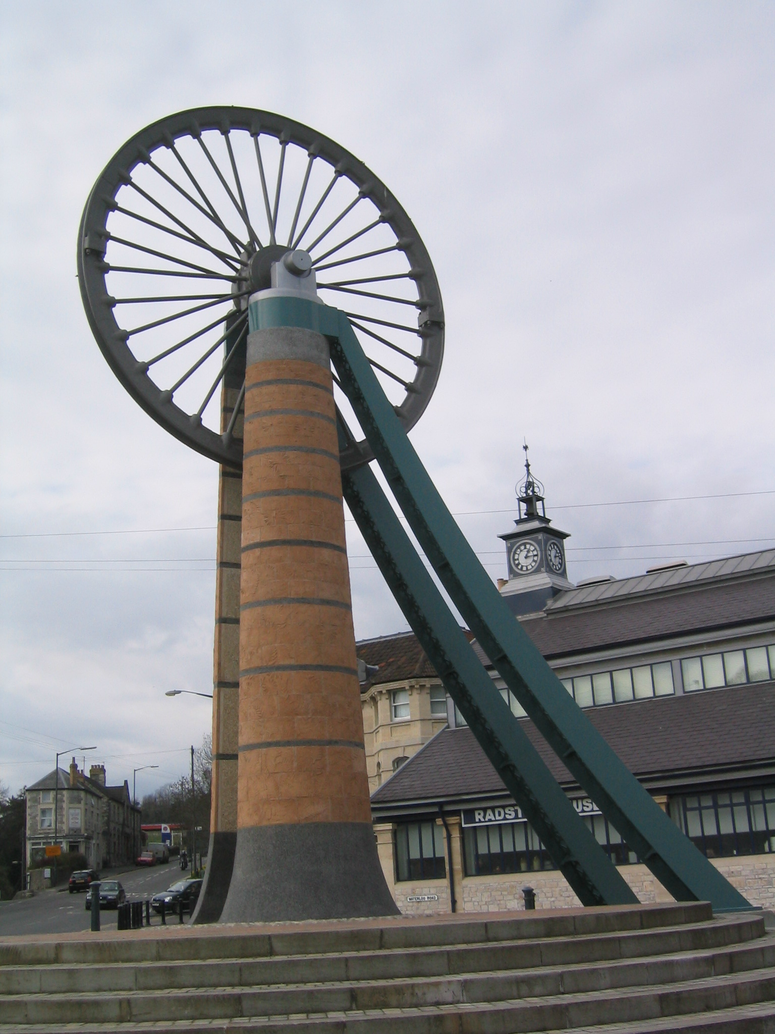 The old coal mining winch wheel in the centre of Radstock, Somerset, UK. The wheel is from Kilmersdon Colliery, Haydon. Photo taken by Alan Ford 2006-04-16.